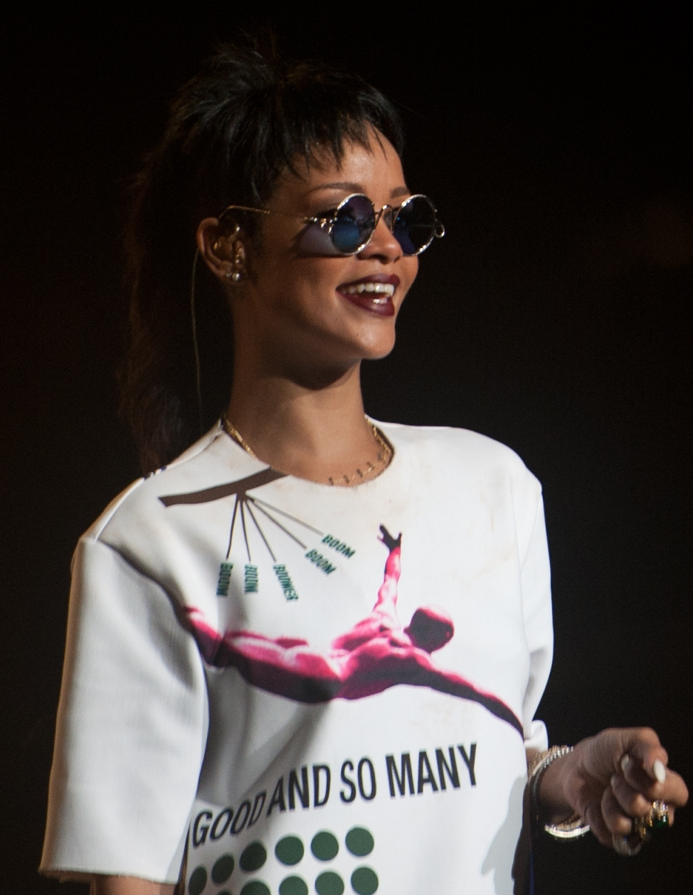 Rihanna performing in Singapore.